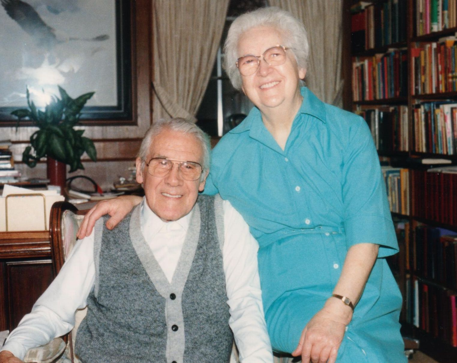 color photo of Leonard Ravenhill with his wife, Martha